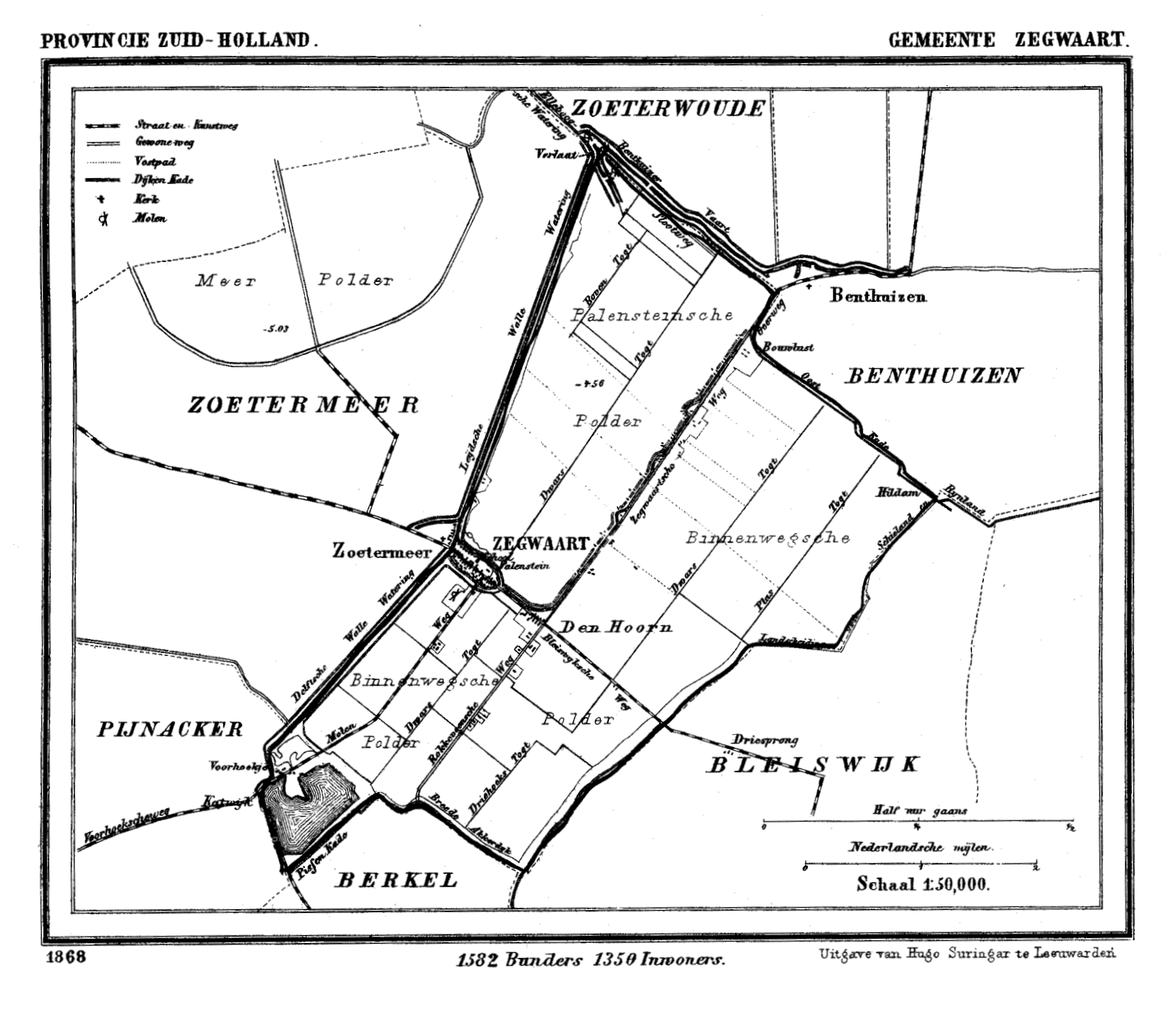 Historic map of Zegwaart (now part of municipality Zoetermeer), South Holland, the Netherlands